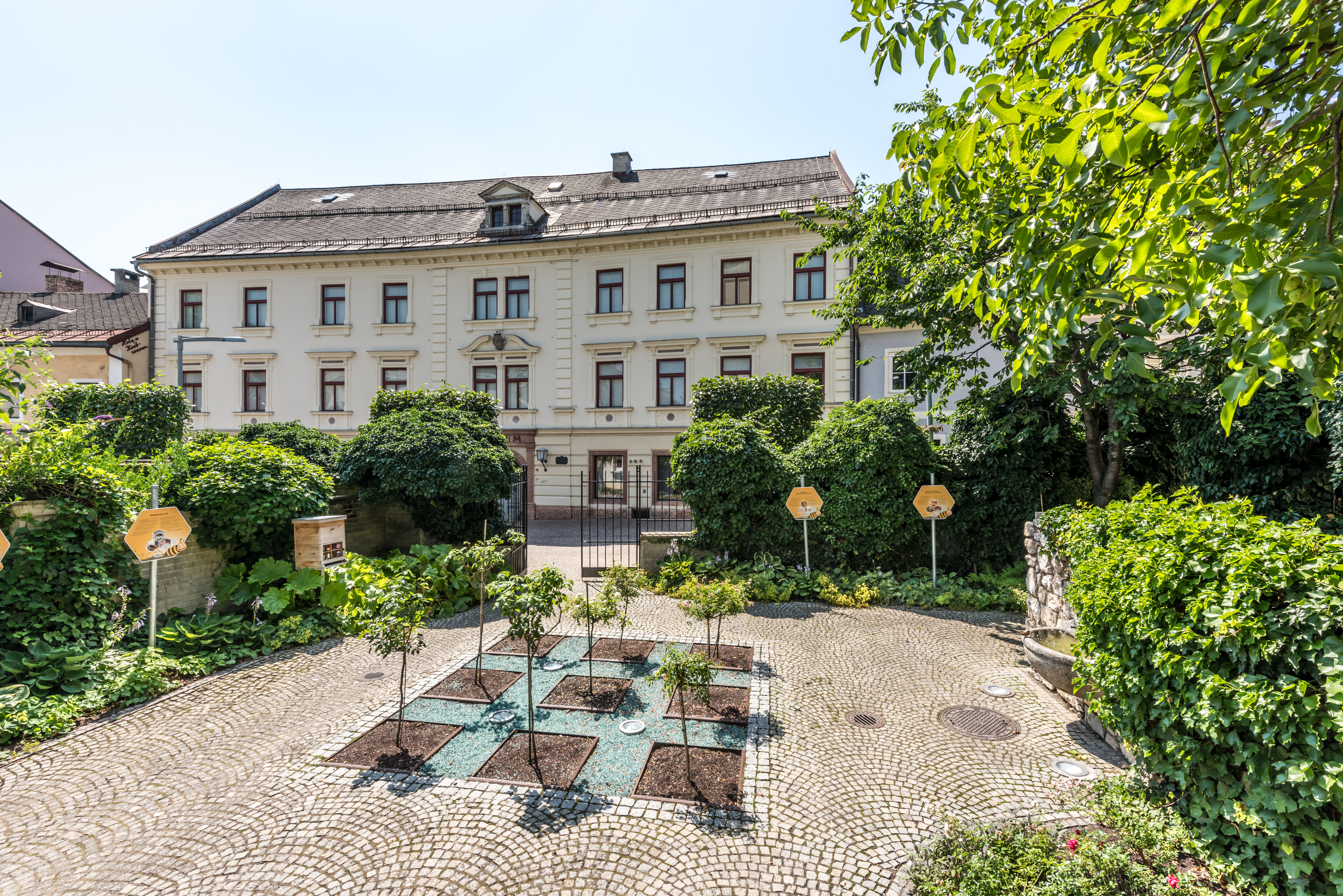 Park and city museum on Widmanngasse #38, inner city, statutary city Villach, Carinthia, Austria, EU